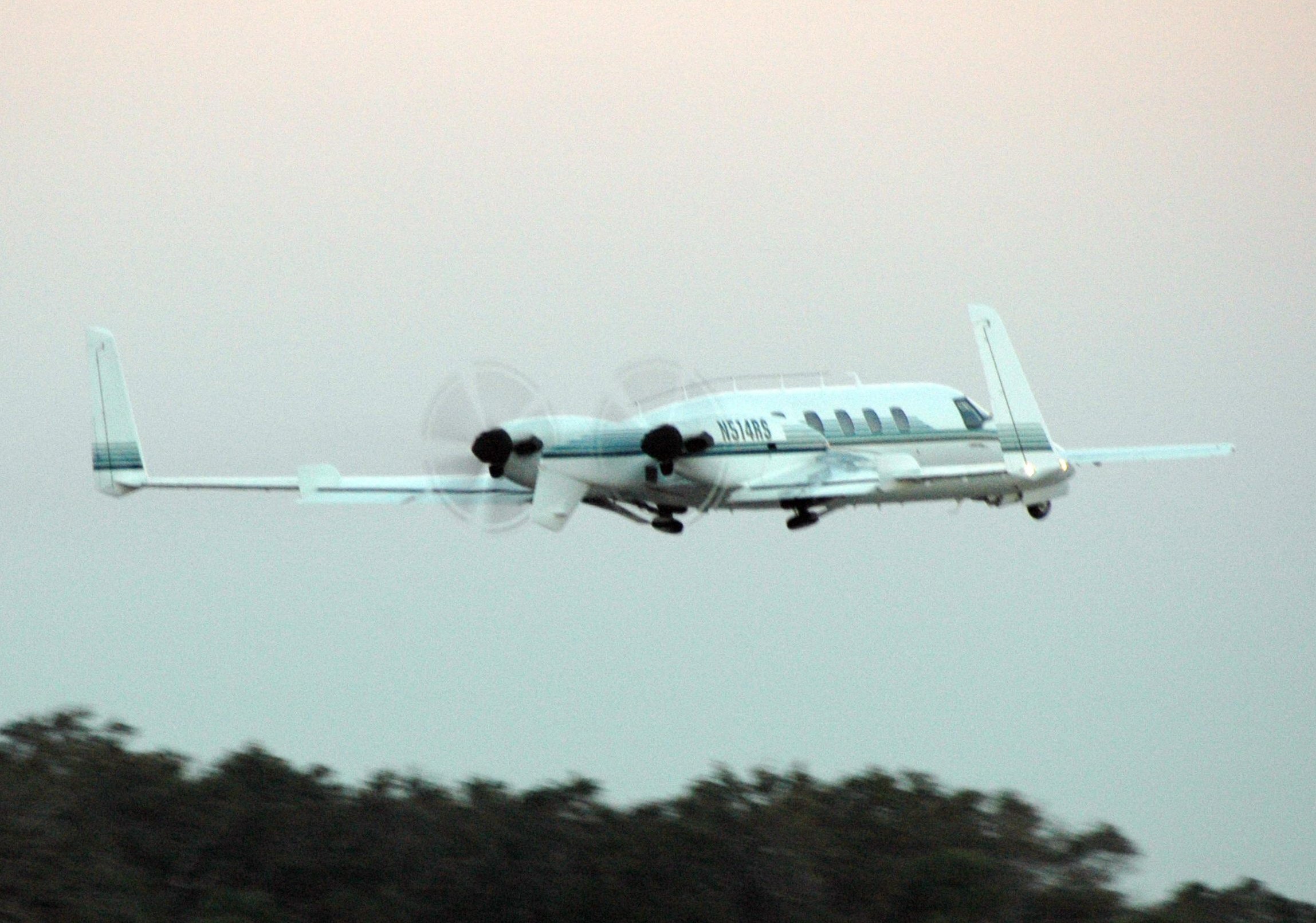 A Beechcraft Starship aircraft precedes the takeoff of the Virgin Atlantic GlobalFlyer from NASA Kennedy Space Center’s Shuttle Landing Facility. Photographers on board the Beachcraft will capture the historic event from the air. Pilot Steve Fossett is attempting a record-breaking solo flight, non-stop without refueling, to surpass the current record for the longest flight of any aircraft. This is the second attempt in two days after a fuel leak was detected Feb. 7. The actual launch time was 7:22 a.m. Feb. 8. 2006